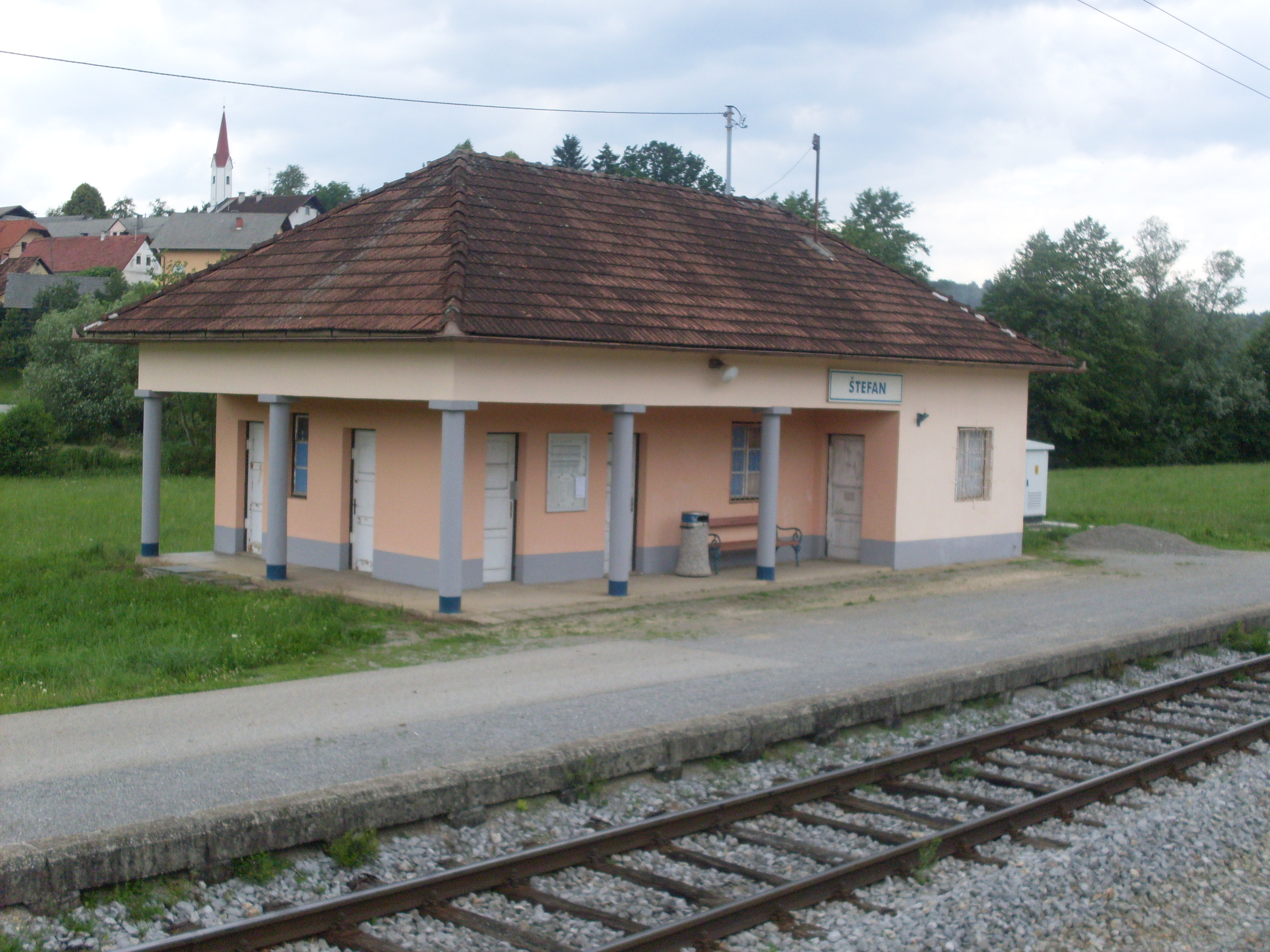 Railway halt Štefan, actually located in Zidani Most pri Trebnjem